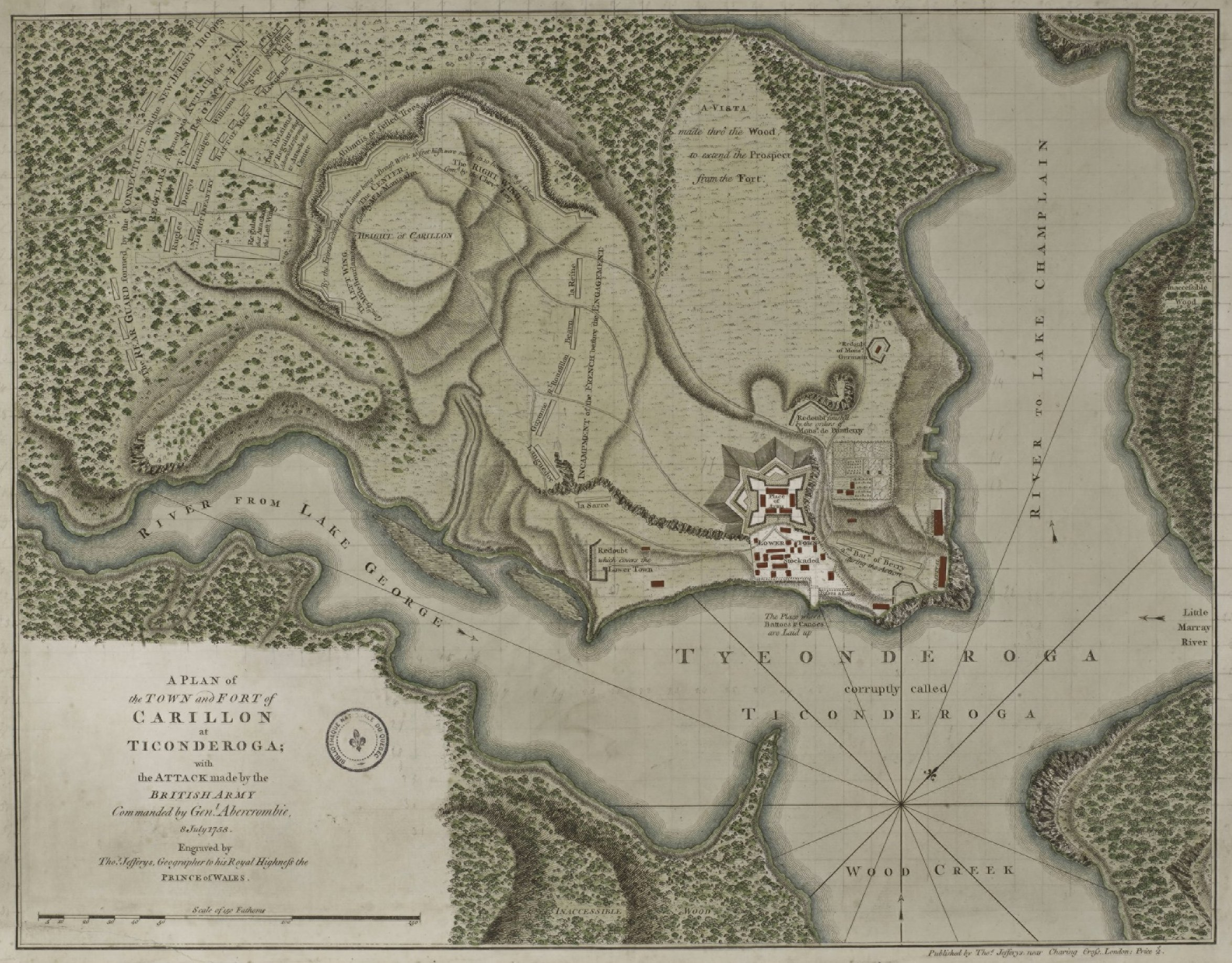 This is a period map showing the forces arrayed at the Battle of Carillon at Fort Ticonderoga (then known as Fort Carillon) in 1758. It is captioned A Plan of the Town and Fort of Carillon at Ticonderoga.